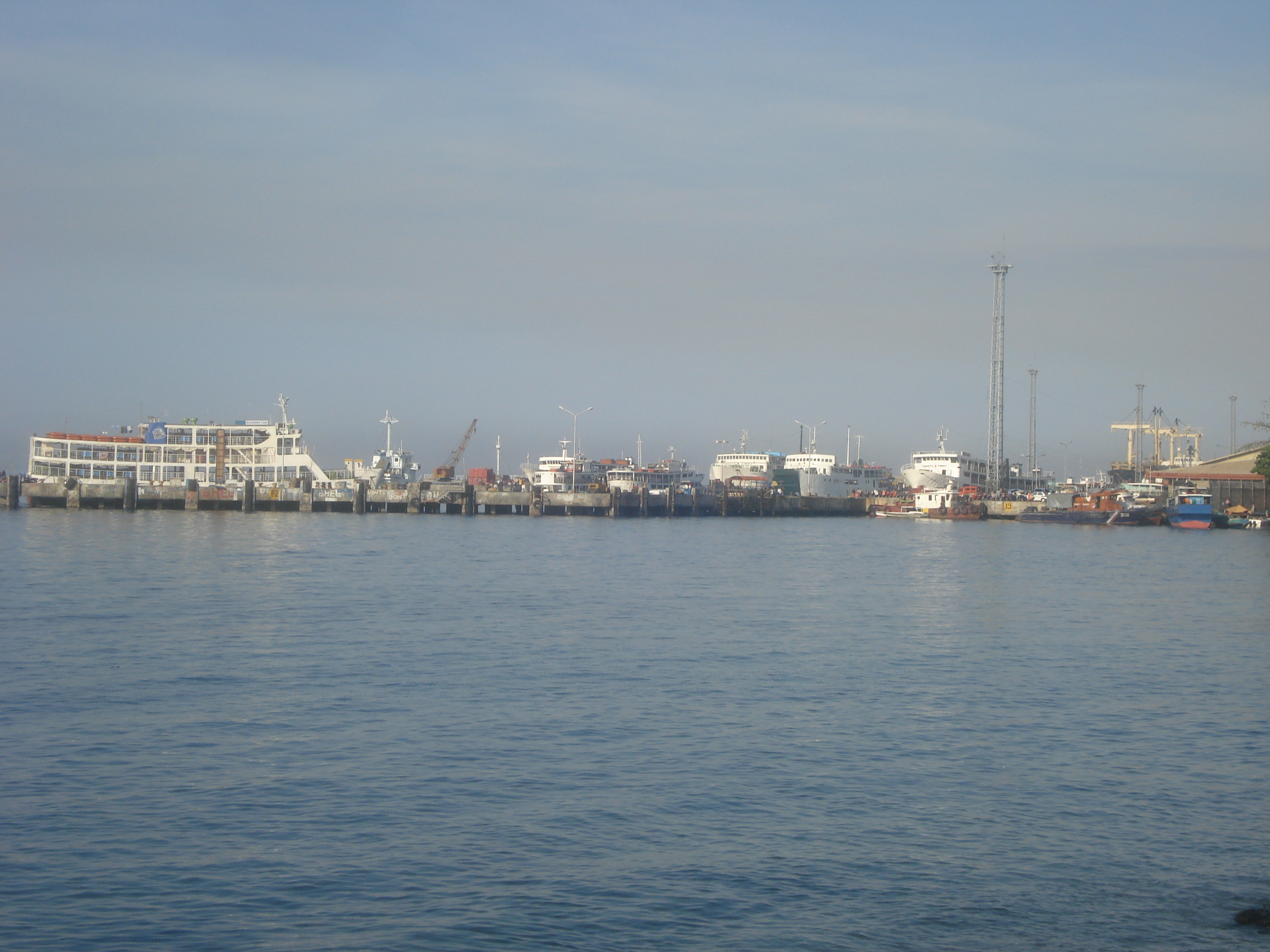 Taken at the Paseo del Mar